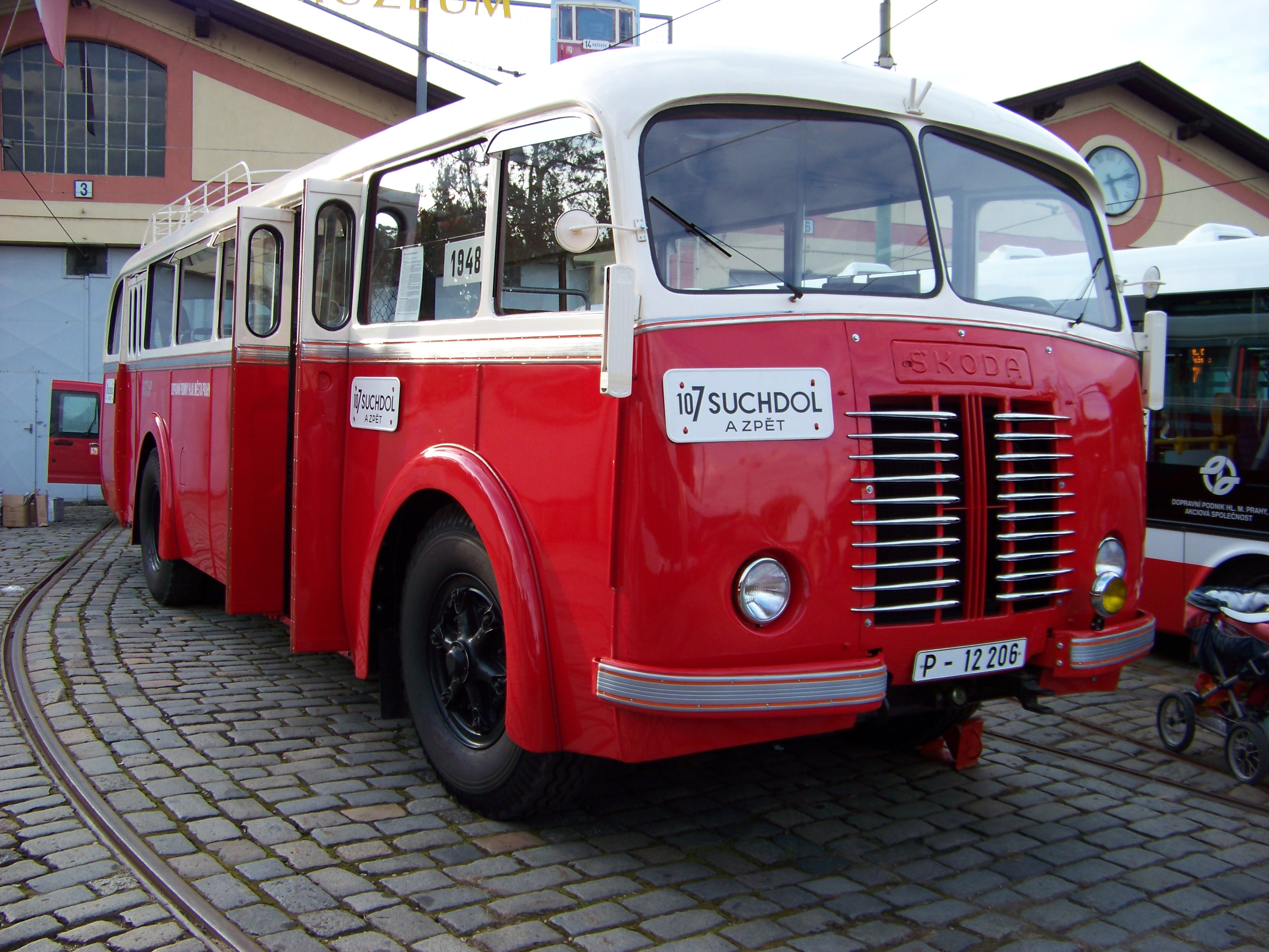 Prague-Střešovice, the Czech Republic. Open Doors Day of Urban Transport Museum. A bus Škoda 706 RO. - Google Maps - Google Earth